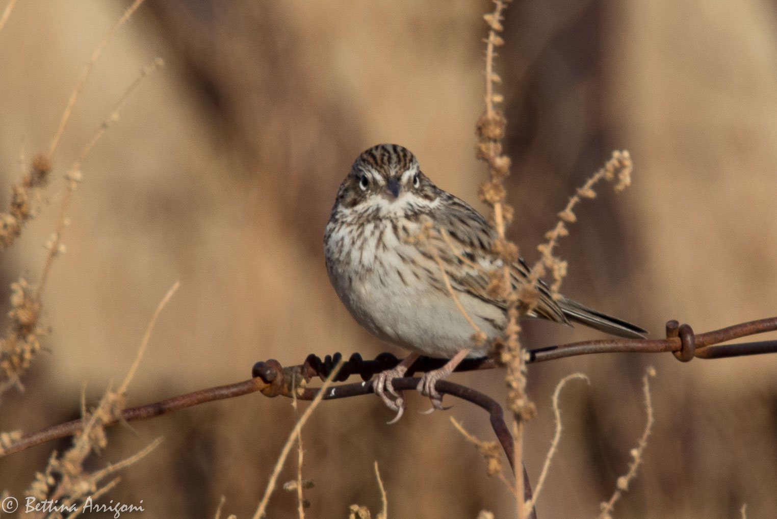 Vesper Sparrow | Curly Horse Ranch Rd | Sonoita | AZ|2017-12-16|09-44-34-2.jpg